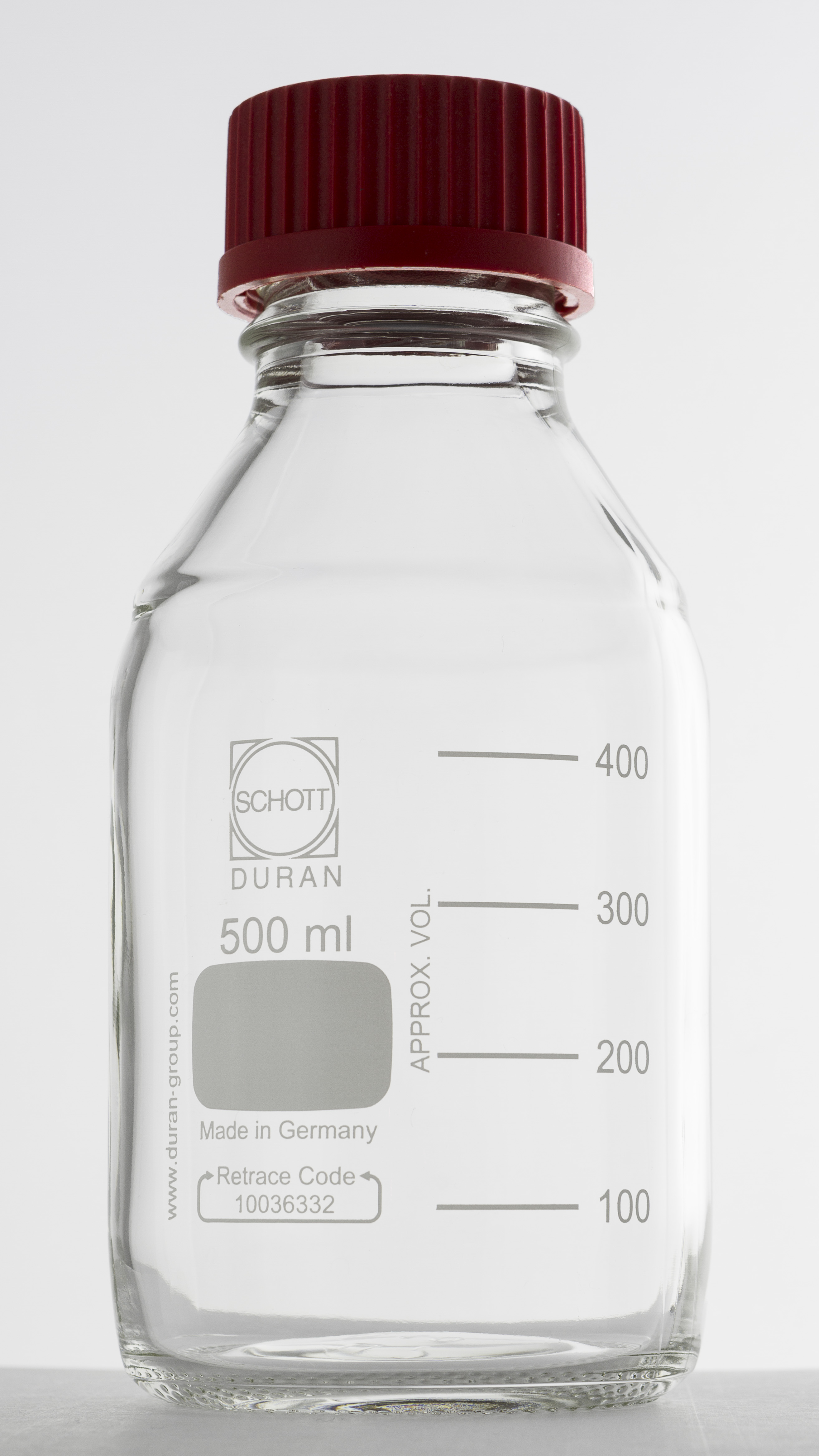 Duran laboratory flask 500ml with GL45 PBT screw cap and PTFE coated seal